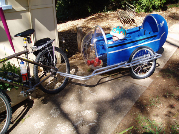 Trailer, pulled by a bicycle or push-bike, that is intended for up to two children and some cargo (behind rear seat); or, both seat-backs can be lowered so that trailer may be used for cargo only.